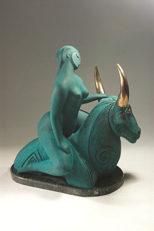 Викрадення Європи